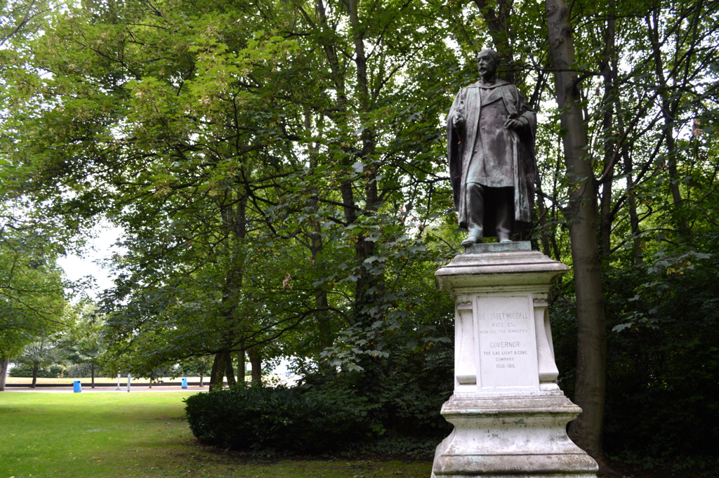 Gas Light and Coke Company boss, Sir Corbett Woodall.